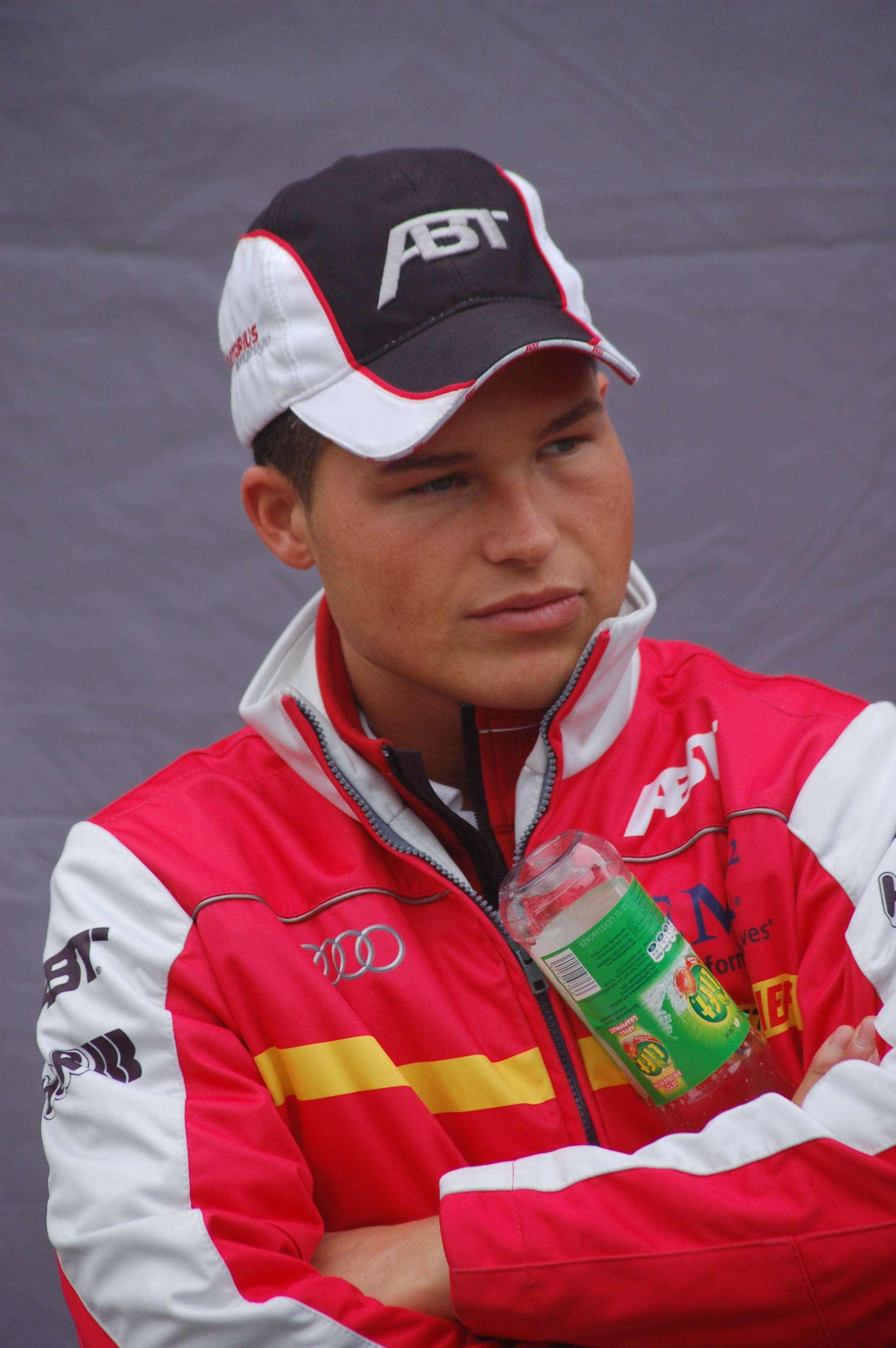 Christopher Mies at Assen 2011